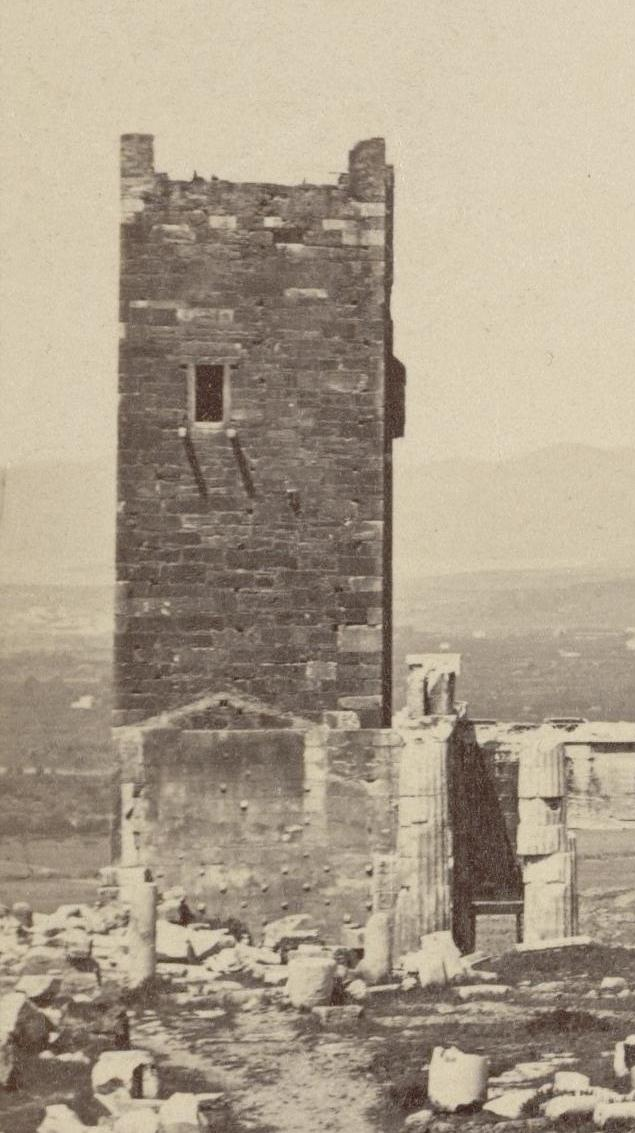 Frankish Tower, cropped from File:Acropolis, Propylaea and Erechtheum.jpg This view of the Acropolis may have been made by William James Stillman. It was certainly taken prior to the demolition of the Frankish Tower (in background, to the left of the Erechtheum) in 1875. Collection: A. D. White Architectural Photographs Accession Number: 15/5/3090.00022